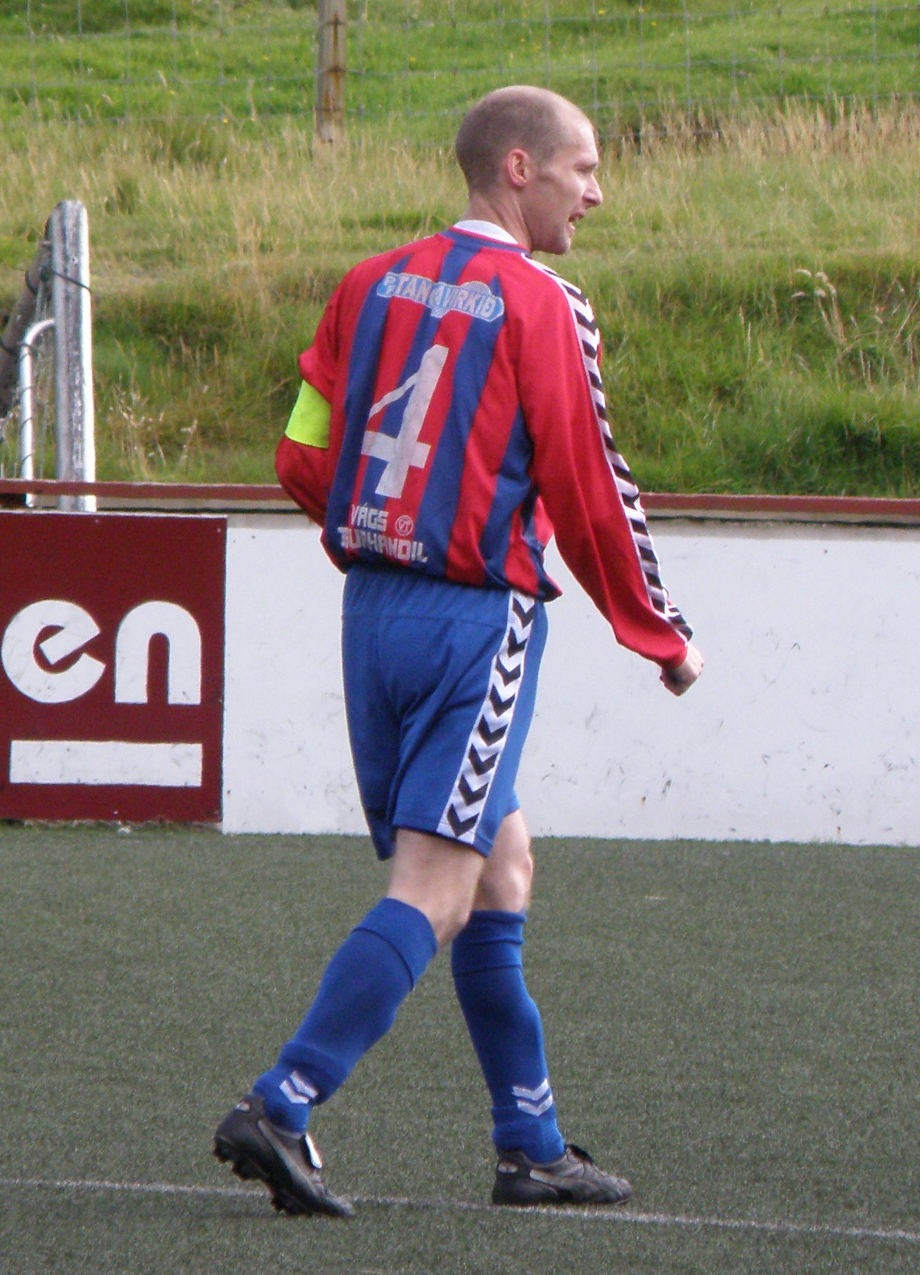 Pól Thorsteinsson is a Faroese football player. He has played 37 matches for the Faroese National Team. Thorsteinsson has played with three Faroese football clubs: B36, NSÍ and VB/Sumba and with an Icelandic football club: Valur.